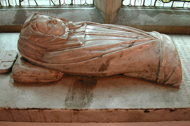 St Giles, Ickenham - Monument Effigy of Robert Clayton